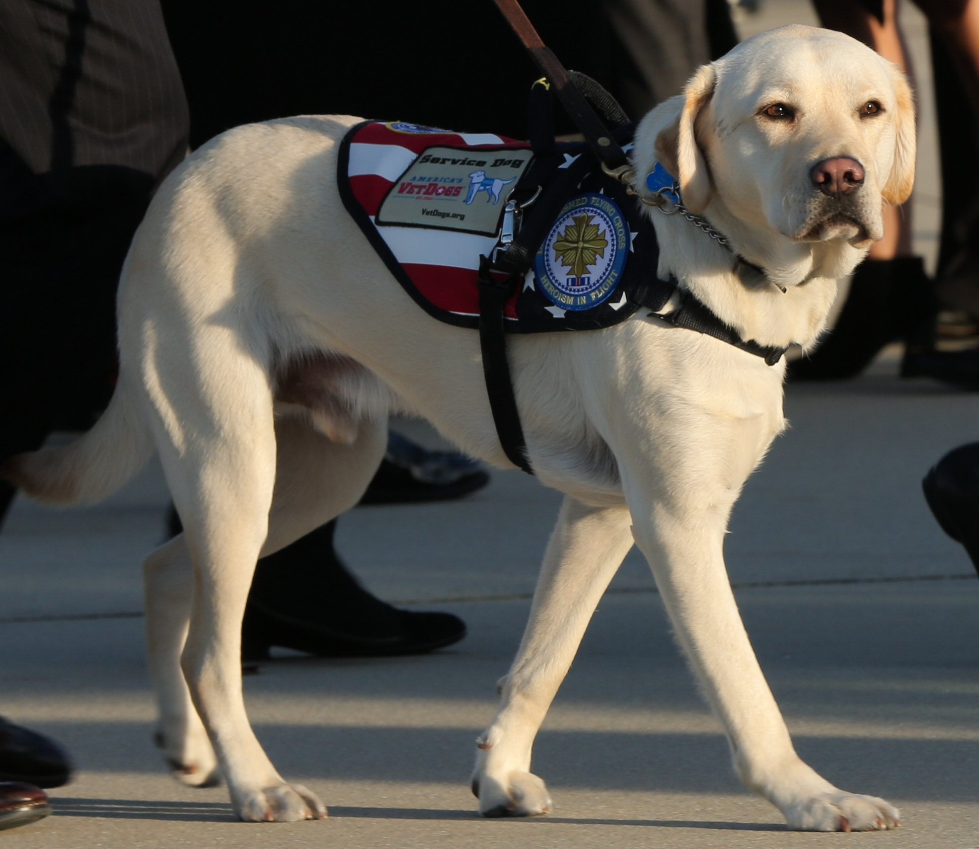 Sully, President George H.W. Bush's service animal, waits with his handler at Joint Base Andrews, Maryland, Dec. 03, 2018. Military and civilian personnel assigned to Joint Task Force-National Capital Region provided ceremonial and civil affairs support during President George H.W. Bush's state funeral. (DoD photo by U.S. Army Pfc. Katelyn Strange) 3DEC2018